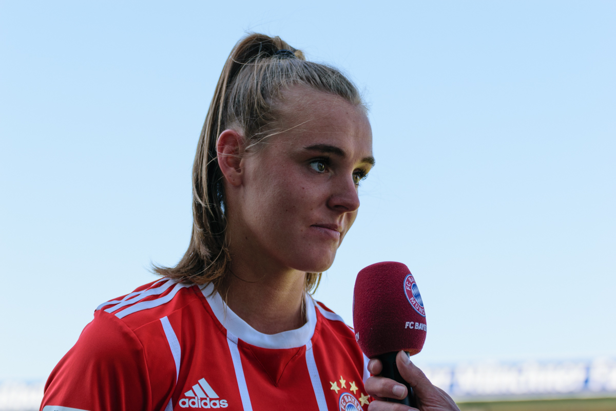 Jill Roord talking to FC Bayern TV